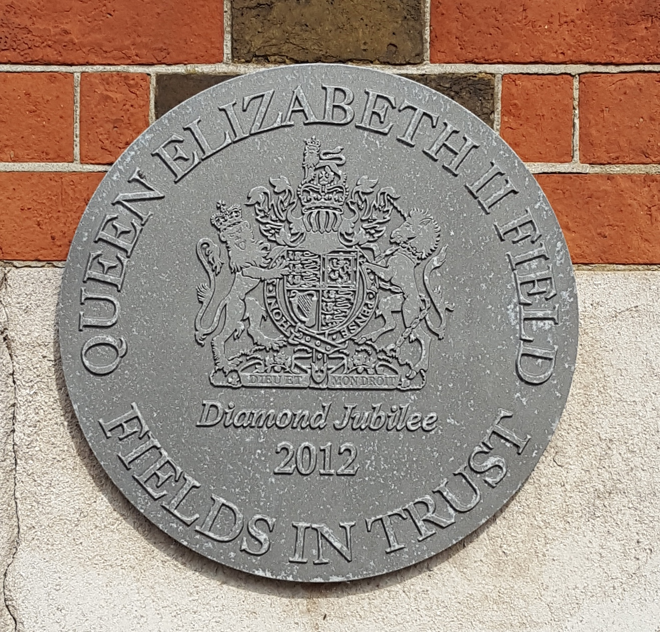 Plaque for Fields in Trust's QEII Fields Challenge scheme.